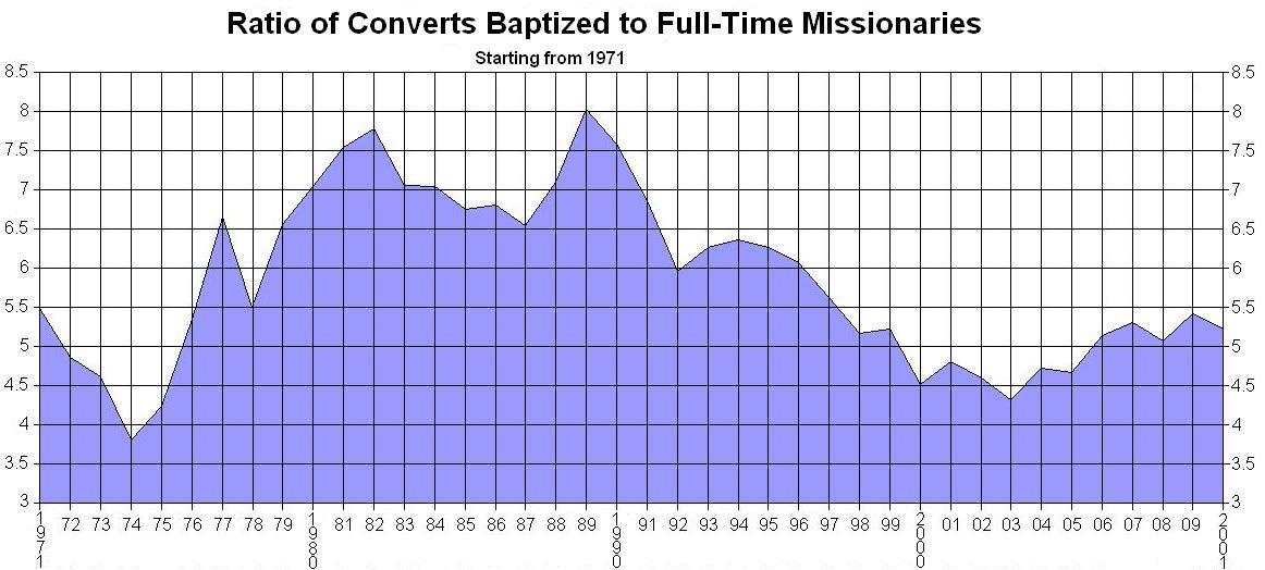 Update of Previous Graphic. 1971-2006 Ratio of Converts Baptized to Full-Time Missionaries for The Church of Jesus Christ of Latter-day Saints.